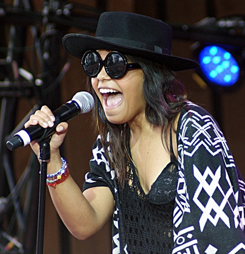 Fefe Dobson performing at the Calgary Stampede on the Coca-Cola Stage in Calgary, Alberta, Canada.